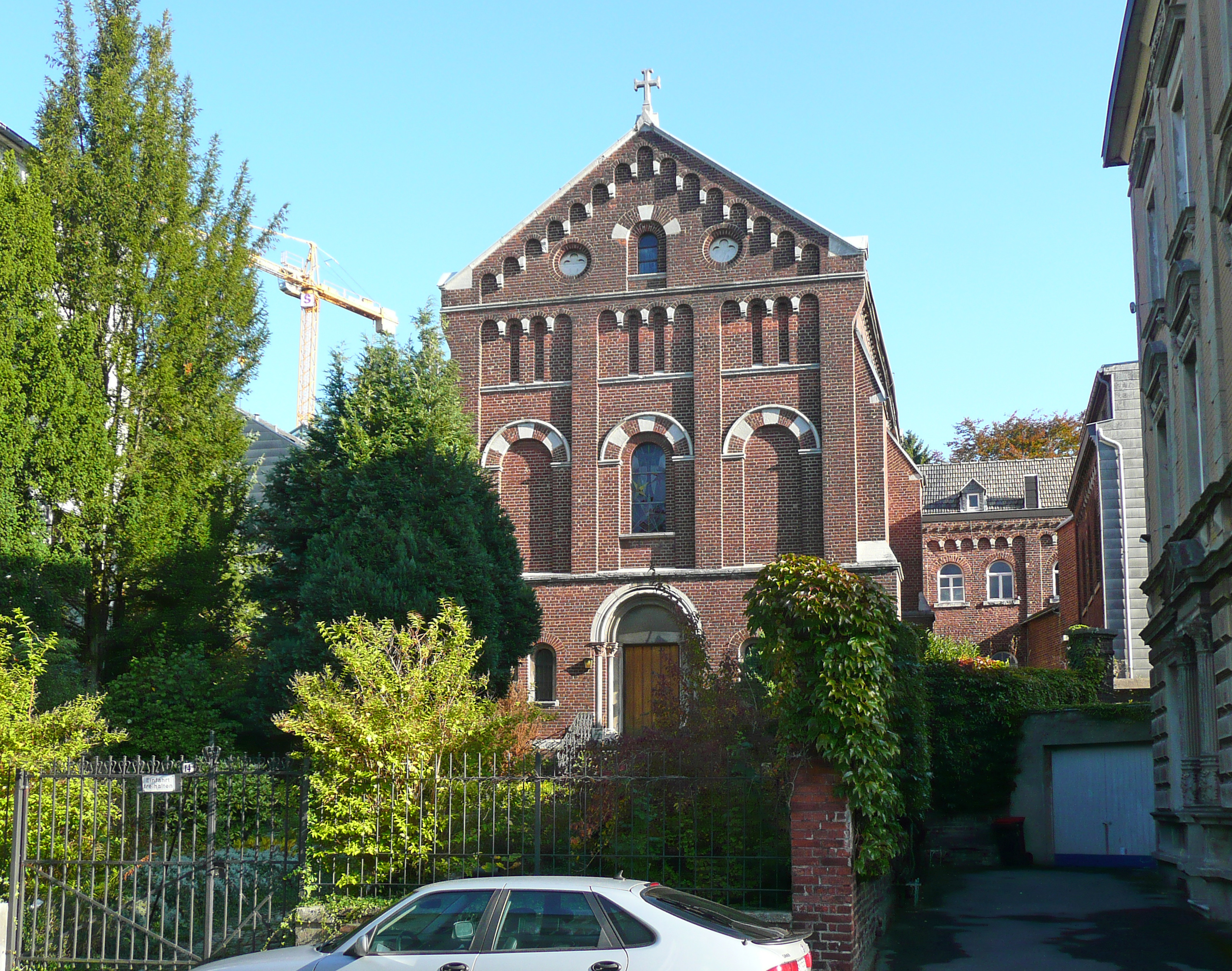 Building in Aachen, Lousbergstr.